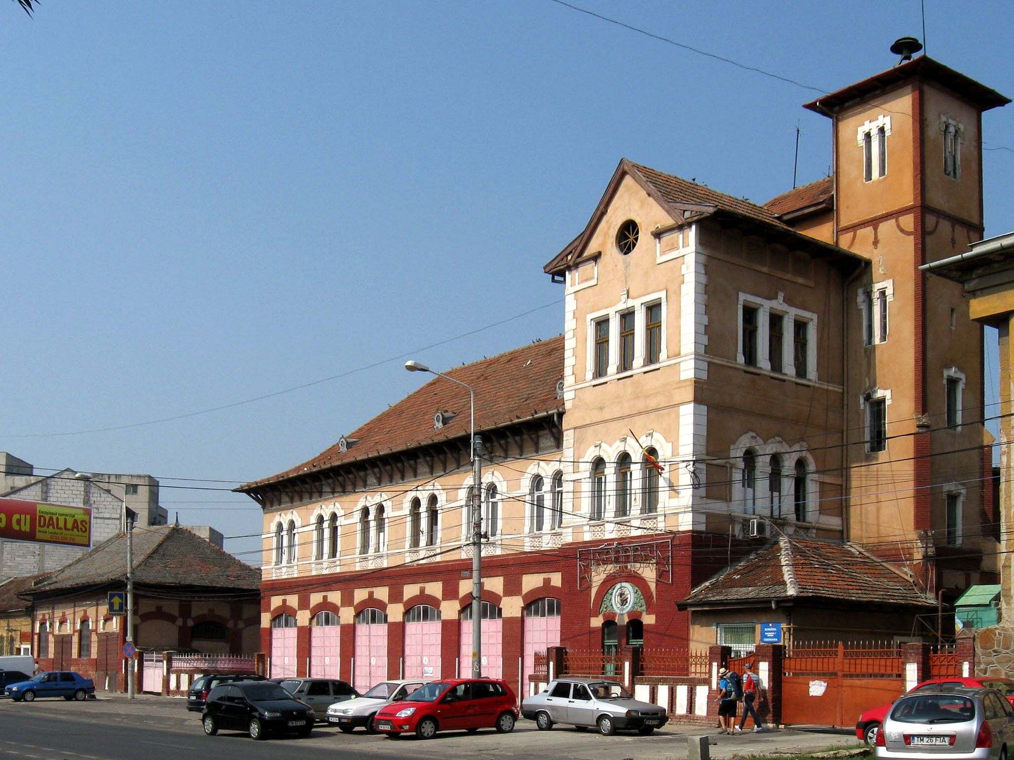 Firefighters barracks in Iosefin, Timisoara, architect Székely László (1877-1934), inaugurated 1906-06-01